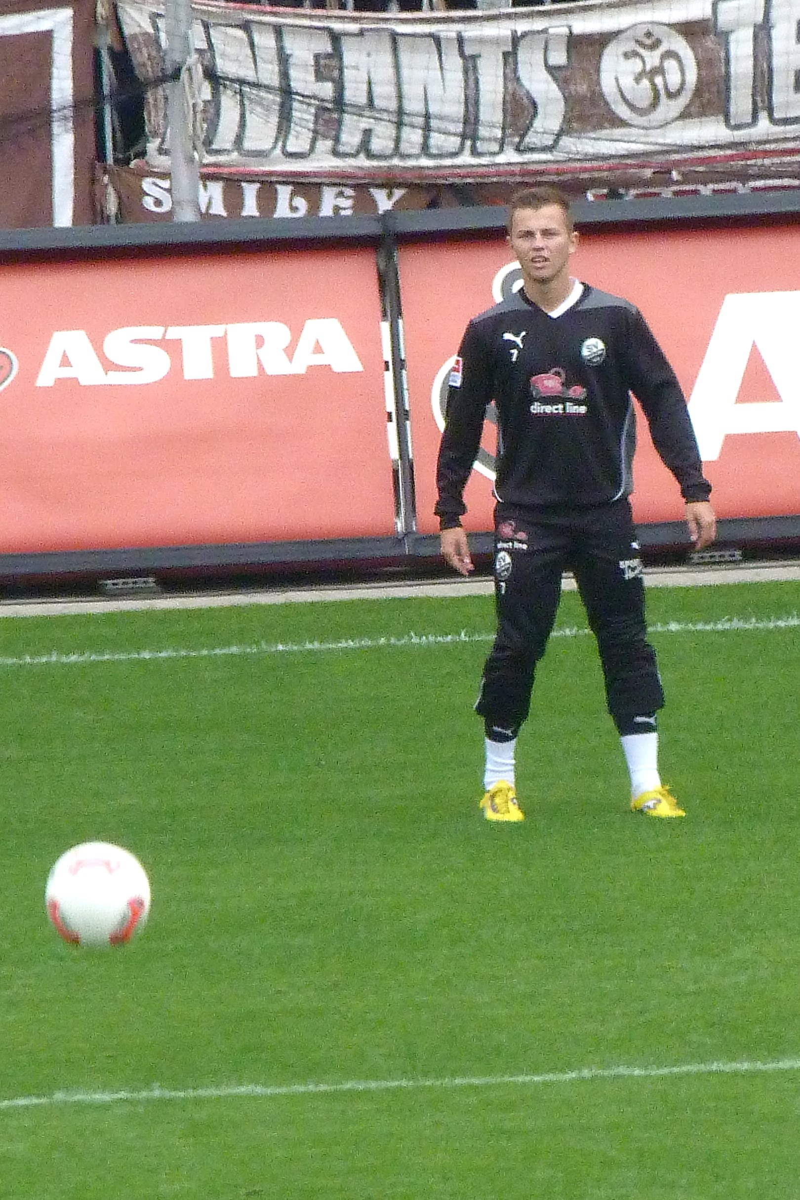 David Blacha as Player SV Sandhausen